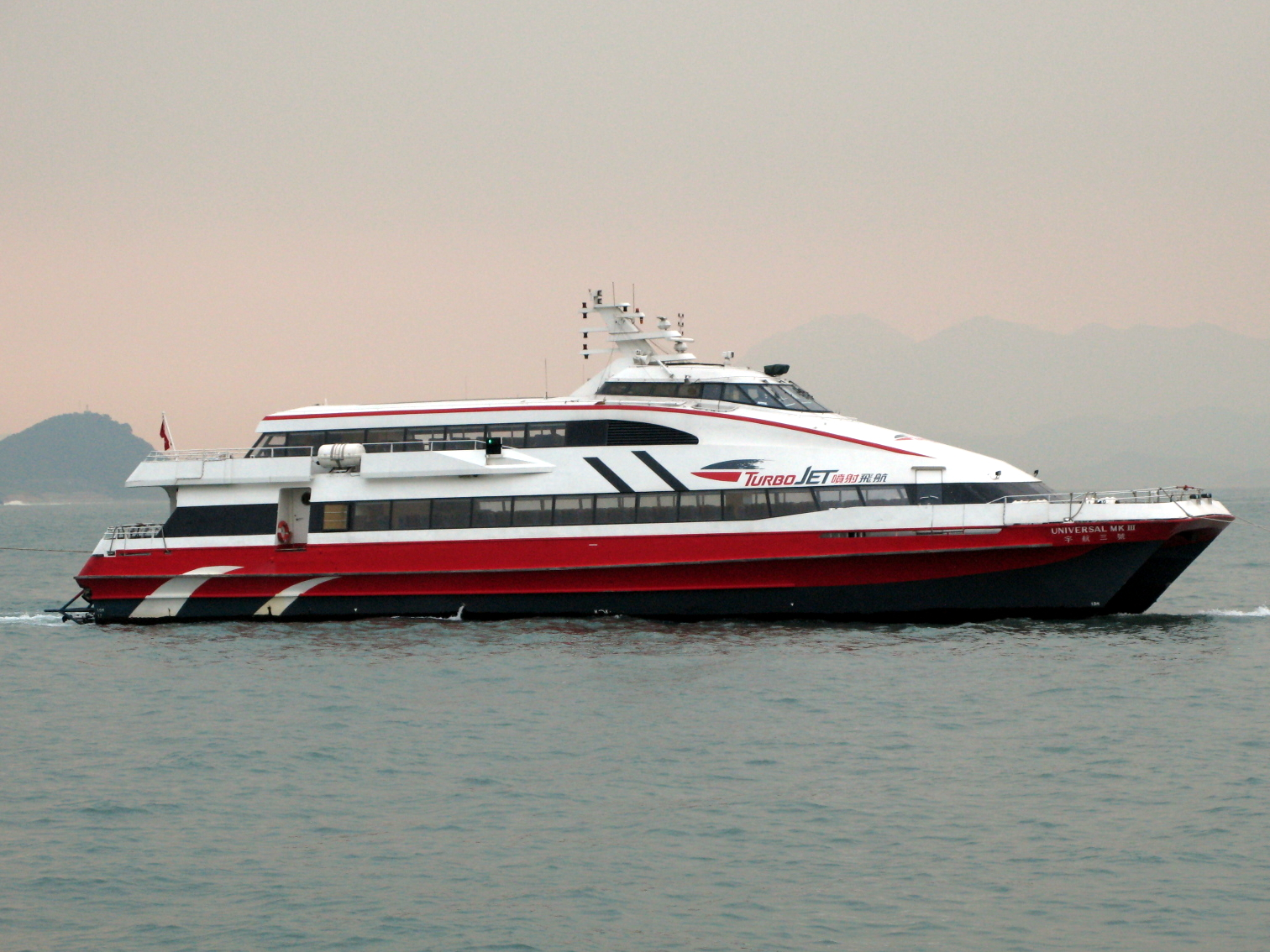 噴射飛航 宇航雙體船 TurboJET Universal MK III